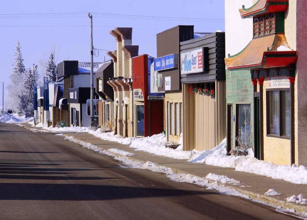 Carlyle Saskatchewan, March 2013 130329-35